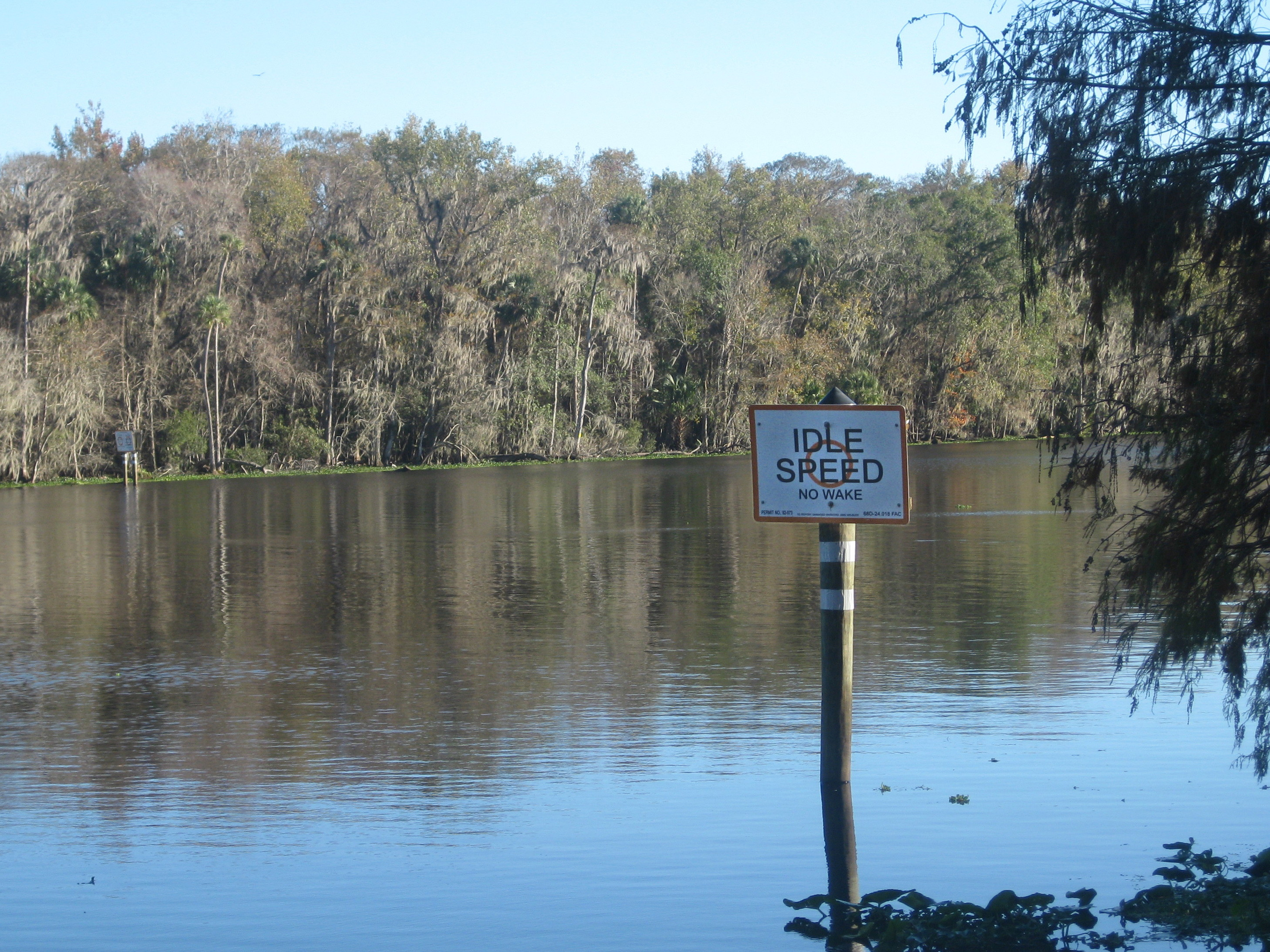 Sign indicating an "idle speed" or "no wake" zone for boaters on the St. Johns River in Astor, Florida, USA. The Lake George State Forest is seen across the river.